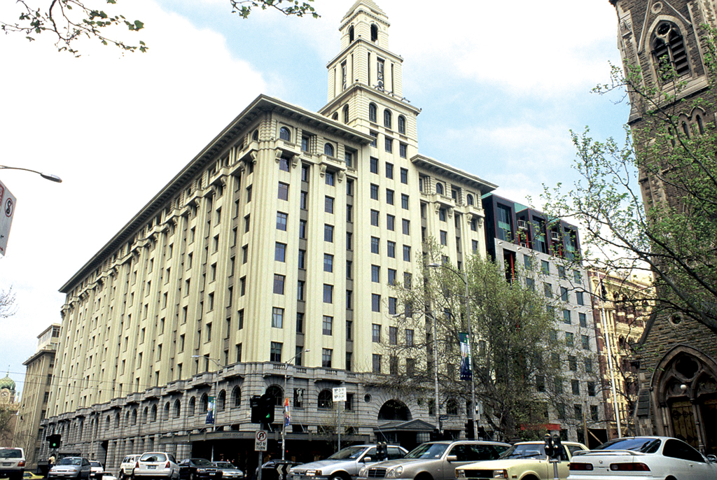 T&G Building Collins Street Melbourne built 1929 expanded into this form 1938 now known as 161 Collins.